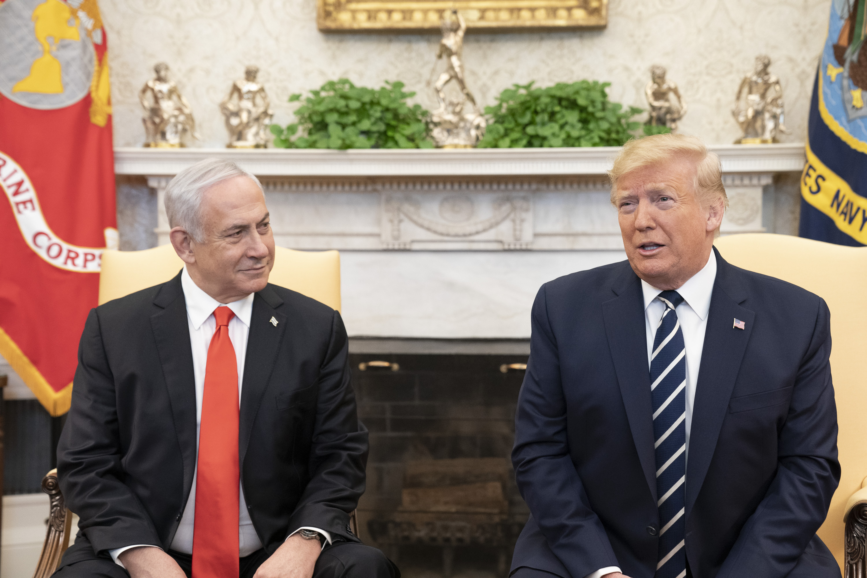 President Donald J. Trump and Israeli Prime Minister Benjamin Netanyahu speak with reporters Monday, Jan. 27, 2020, in the Oval Office of the White House. (Official White House Photo by Shealah Craighead)